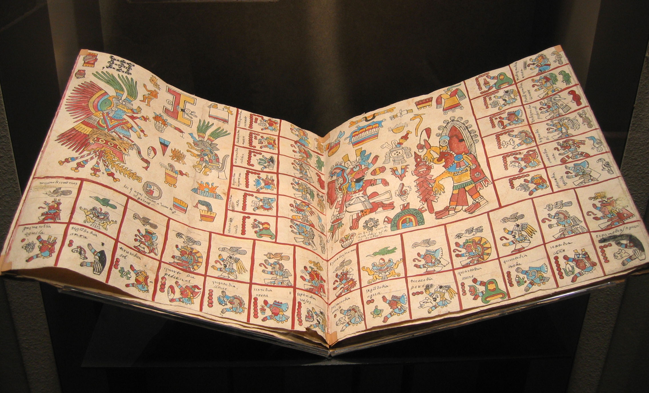 Collection of Museo Nacional de Antropología, Mexico City Originally uploaded to: The photo on this page is that of a facsimile of the Aztec Codex Borbonicus, a compilation of monthly celebrations, painted with natural materials on amatl bark paper. The original is at the Bibliothèque de l'Assemblée Nationale, Paris; this facsimile is on display at the Museo Nacional de Antropología, Mexico.